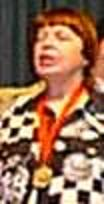 Tatiana Zatulovskaya, Senior Chess World Championship 1997 at Bad Wildbad, Photographer Gerhard Hund.